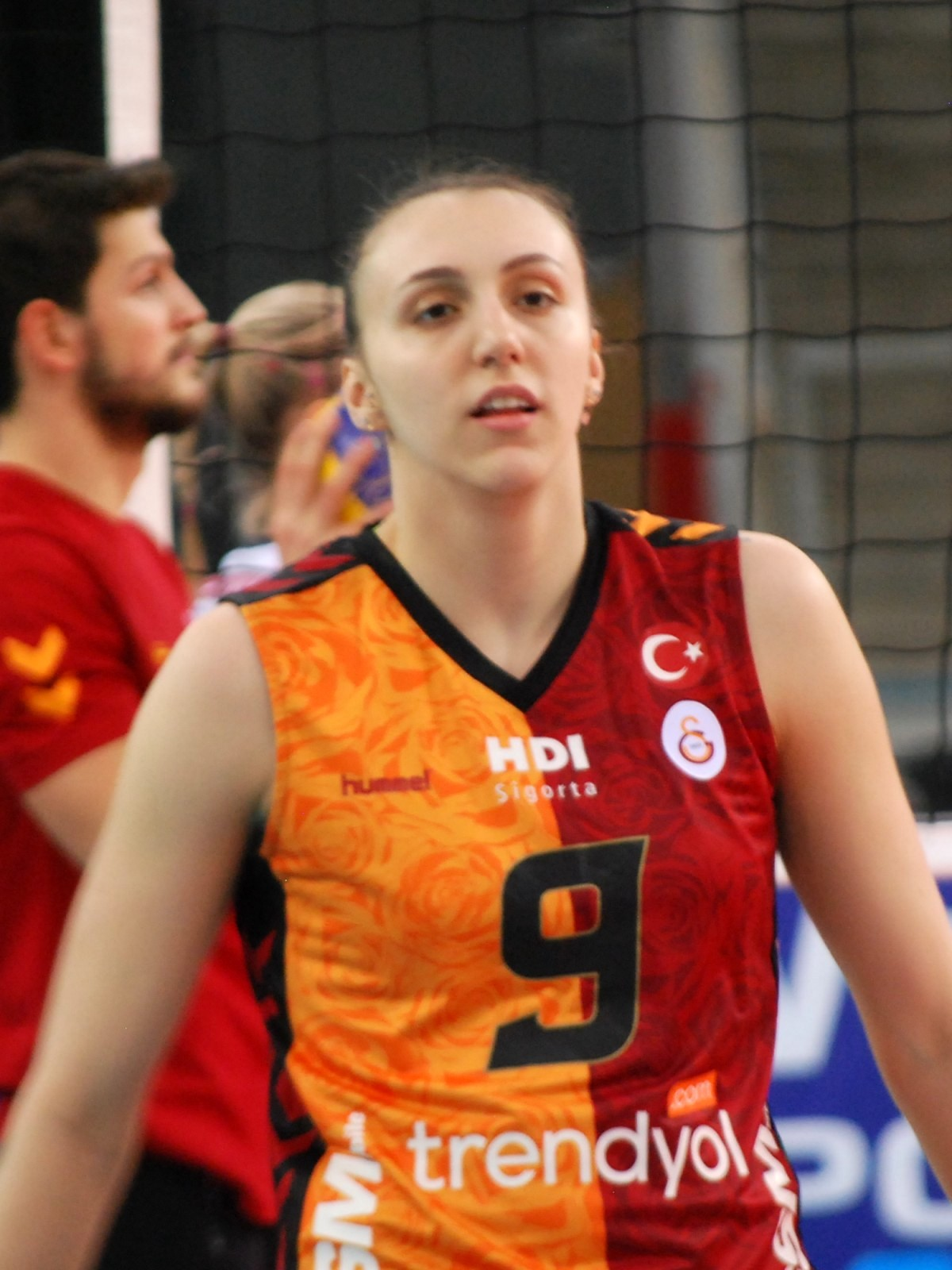 Aslı Kalaç, volleyball player from Turkey